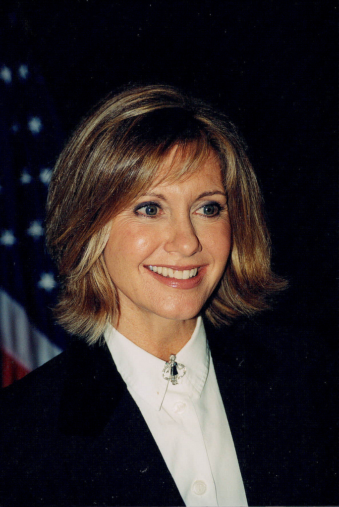 Wash D.C. National press club